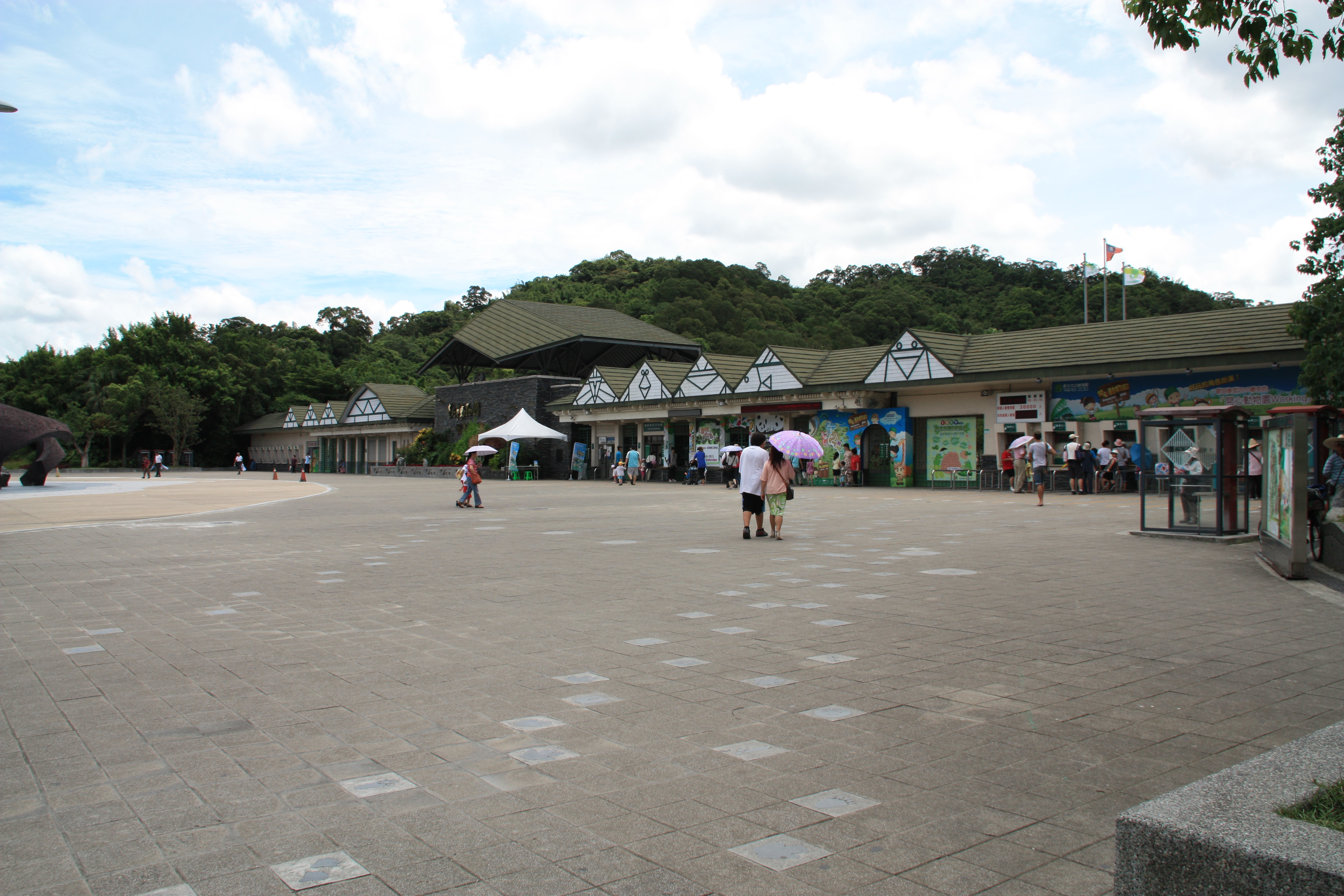 Táiběi Wénshān District Xīnguâng Rd. Táiběi Zoo Gate of Táiběi Zoo